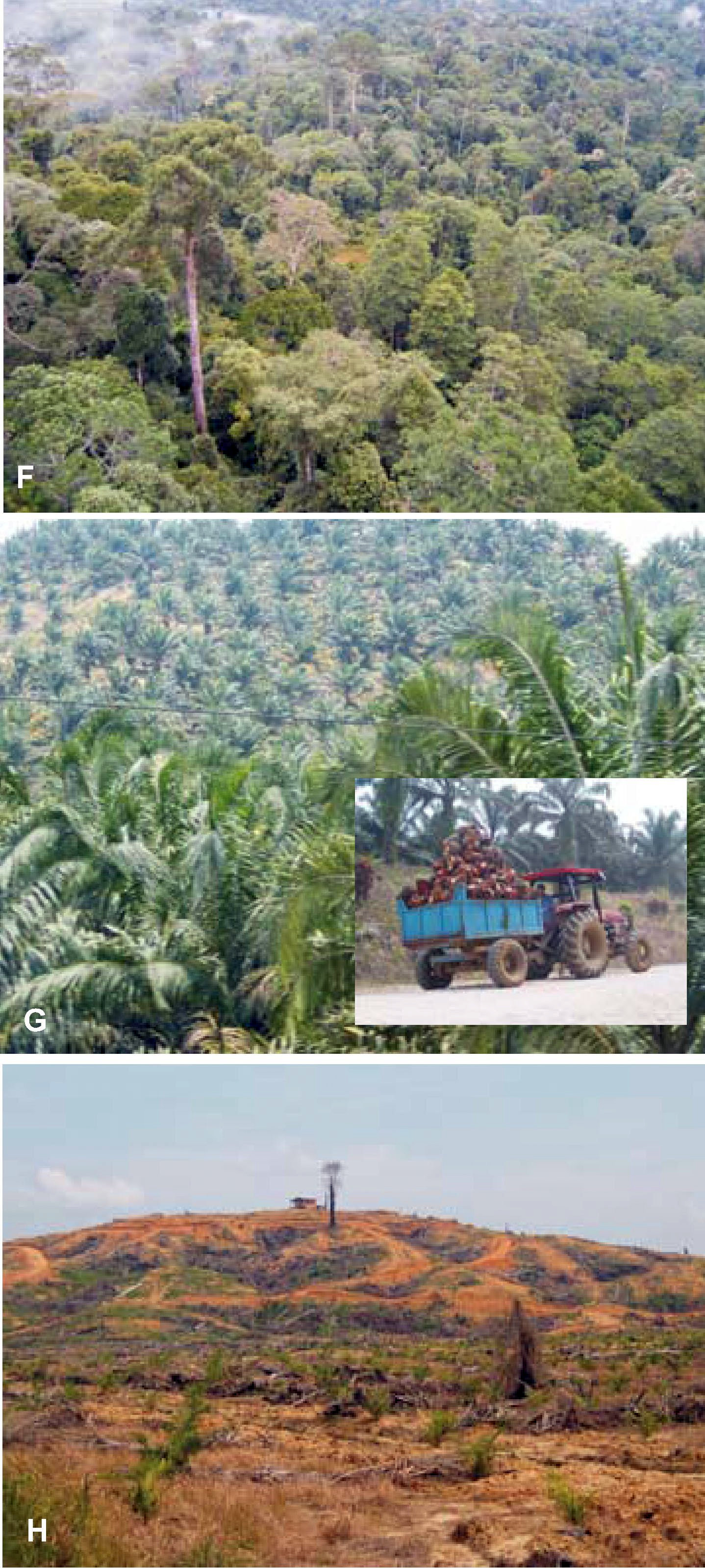 Lost Ecosystem Services and Vanishing Ecological Roles. Forest ecosystems in the tropics and subtropics are being quickly replaced by industrial crops and plantations. This provides large amounts of goods for national and international markets, but results in the loss of crucial ecosystem services mediated by ecological processes. In Borneo, the Dypterocarp forest, one of the species-richest in the world (F), is being replaced by oil palm plantations (G). These changes are irreversible for all practical purposes (H).